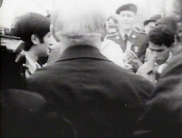 This is a screen capture taken from the public domain newsreel footage of Universal News, given into public domain by MCA in 1976 and hosted by Internet Archive at The footage shows an anti-war protest in New York City in 1967, including a group of young men burning their draft cards. The protest was held in Sheep Meadow in Central Park; author Jerry Elmer calls it "the first large-scale burning of individual draft cards by resisters". The uniformed Army reservist in a beret is Gary Rader, who burned his card.